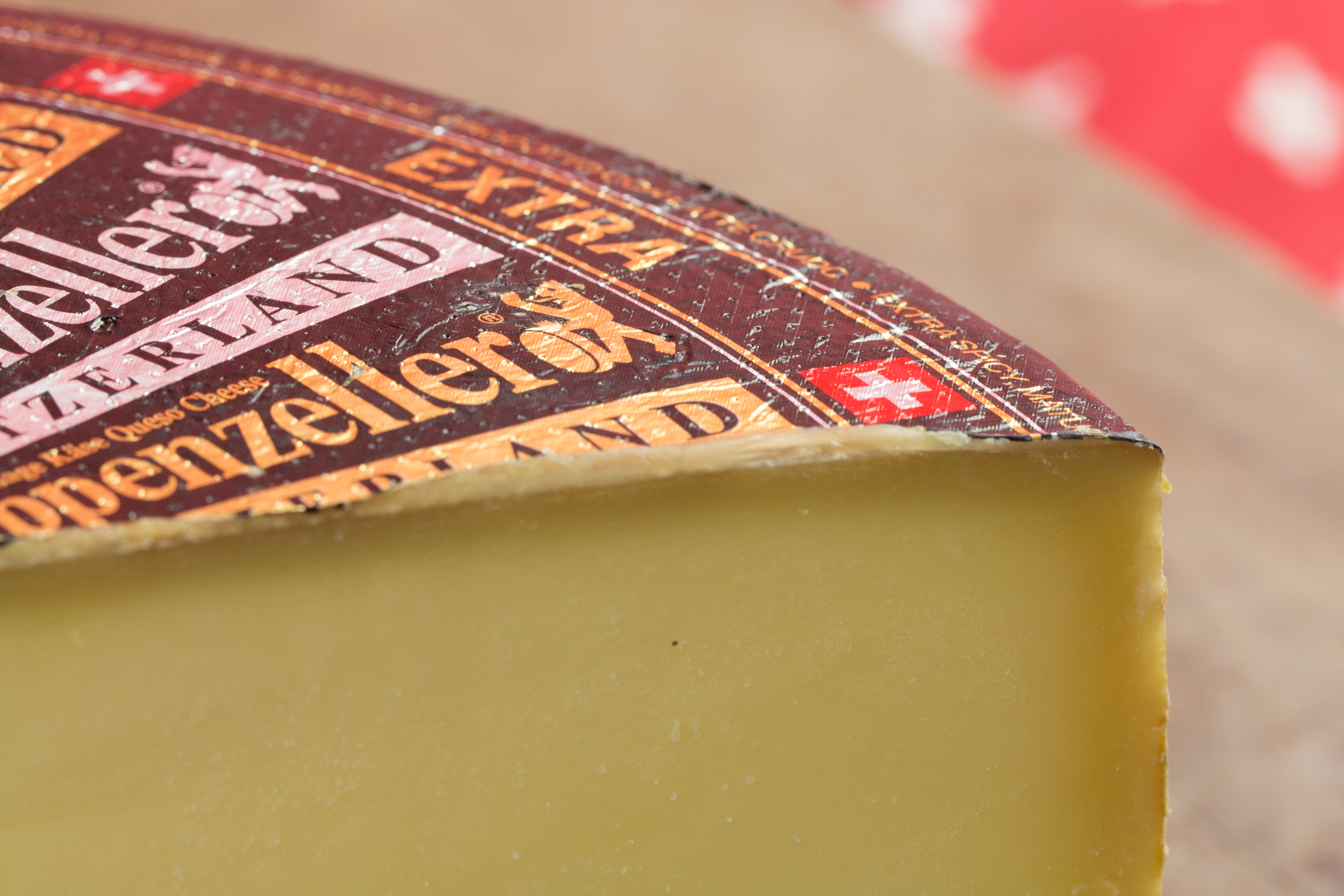 Wiki loves Cheese Vienna